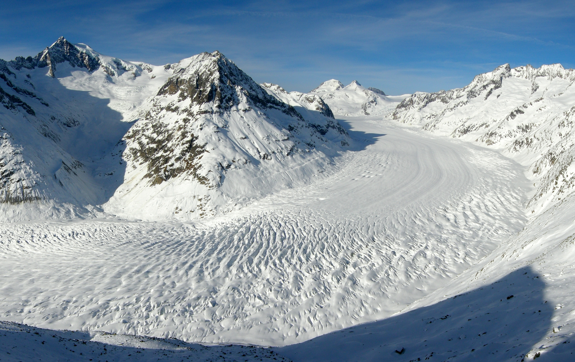 The largest and longest glacier of the Alps: the Aletsch Glacier seen from Eggishorn, Valais, Switzerland. Mountain panorama from left: Aletschhorn (4193m), Olmenhorn (3314m, middle), left of it the Mittelaletschgletscher. In the background Mönch, Trugberg (3933m), and Eiger (iceless). On the right ridge to the invisible Wannenhorn: Chamm (3866m), Fiescher Gabelhorn (3876m) and Schönbühlhorn (3854m).